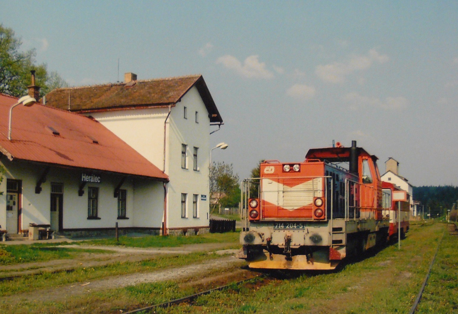 Herálec. Train from Havlickuv Brod to Humpolec (dep. 16.55). 6.5.2006. 714-204-5 + 810-123-0.